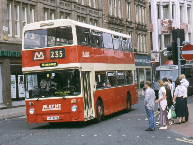 Mayne 6 IAZ4776 Leyland Fleetline / Northern Counties in Piccadilly, Manchester